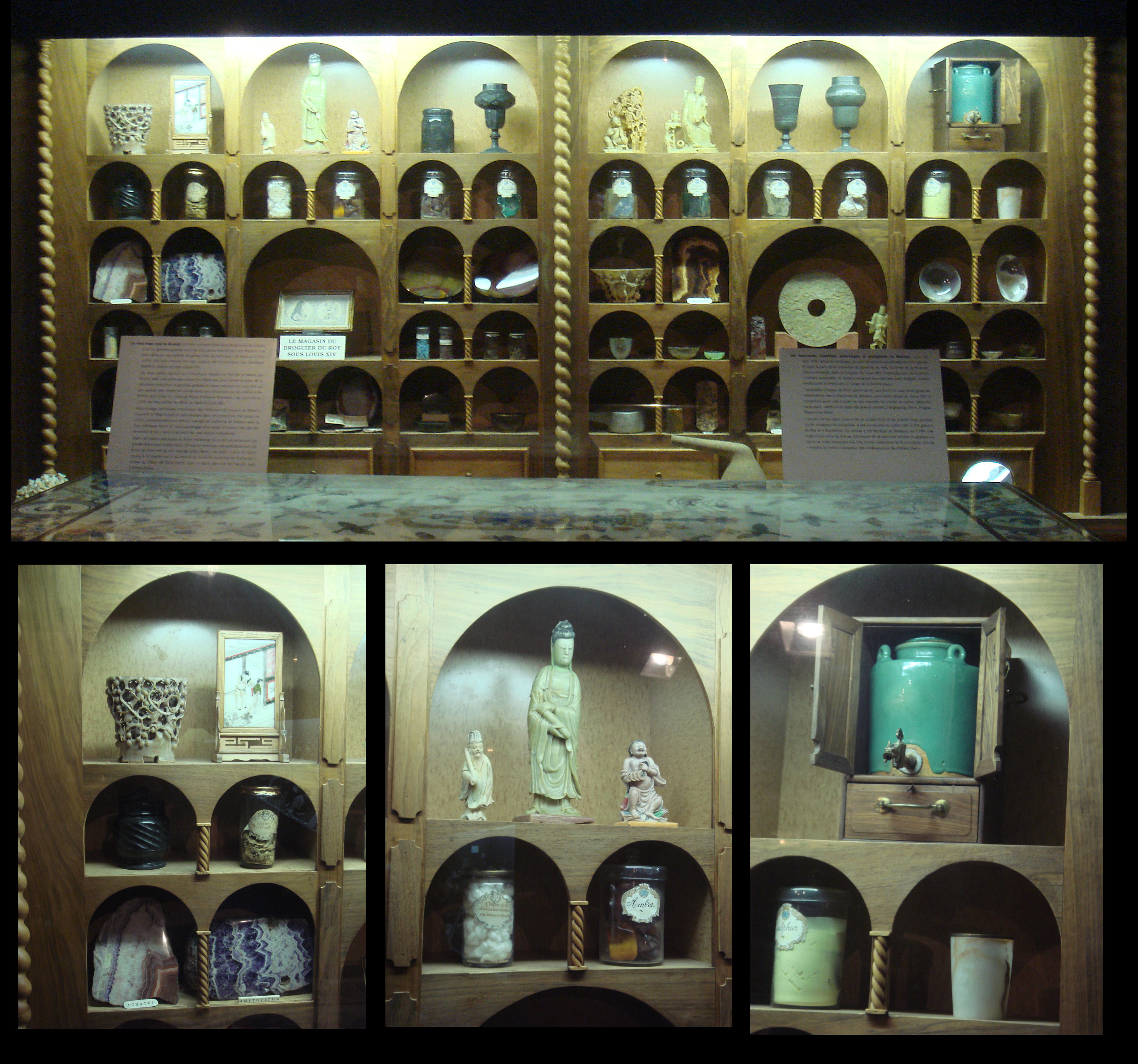 Drugstore Of Louis XIV (With Details)